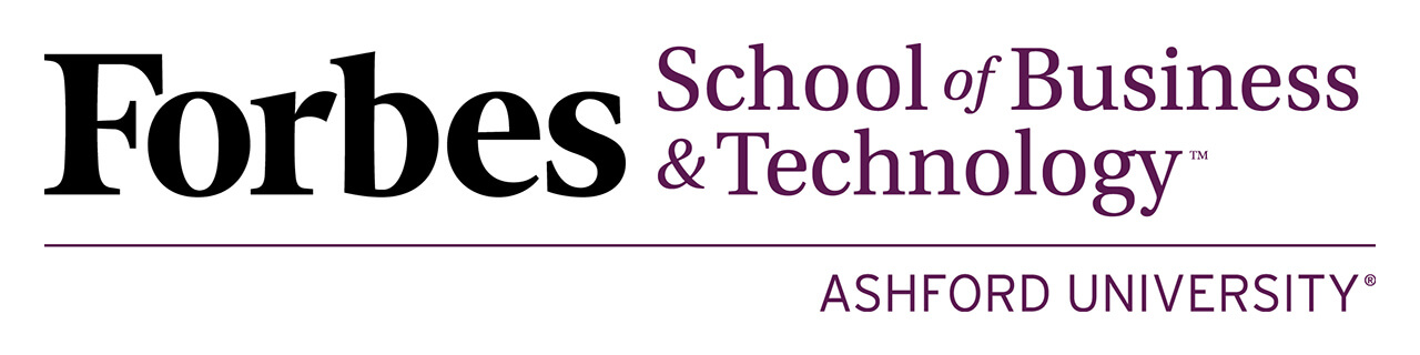 Logo of FSBT.